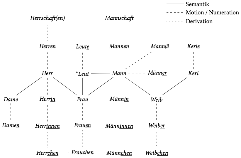 German lexemes for man and woman and both